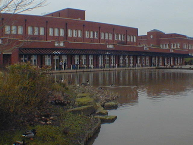 Lingley Mere, North West Water The Lingley Mere complex, this is the call centre for North West Water. Vertex